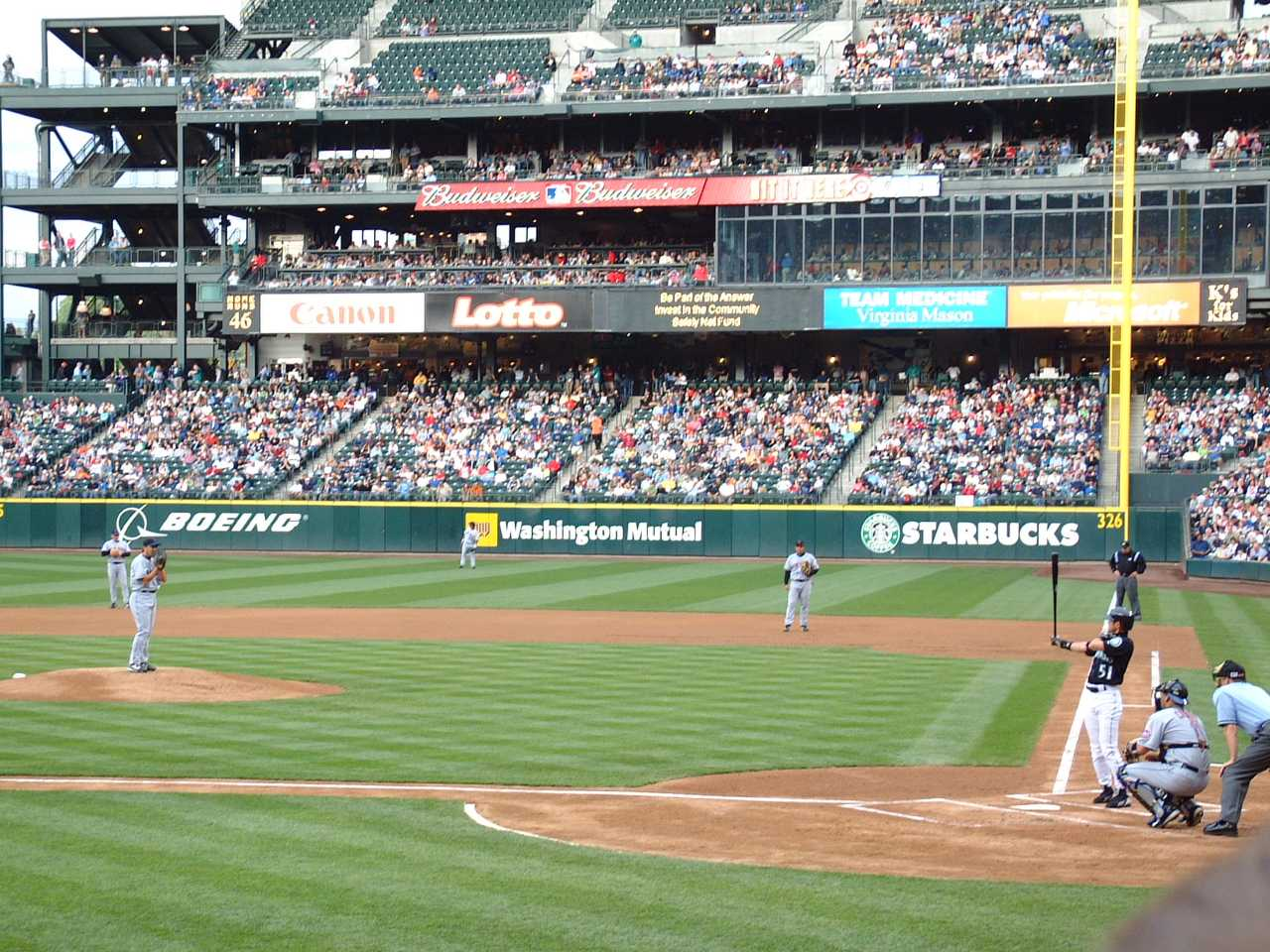 a major league baseball game at Seattle. Ichiro vs Ishii.